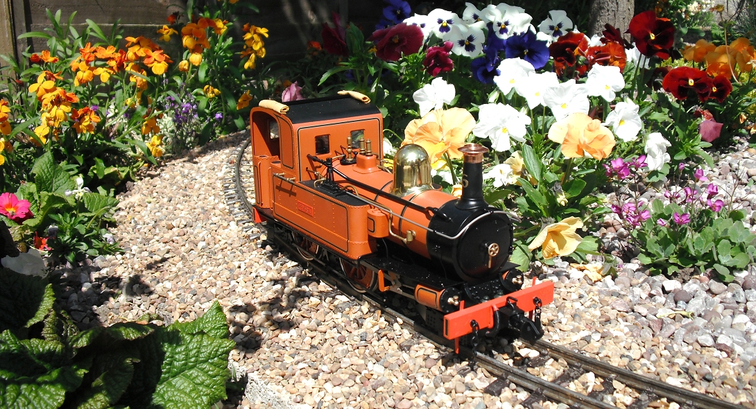 G Scale Isle of Man locomotive.